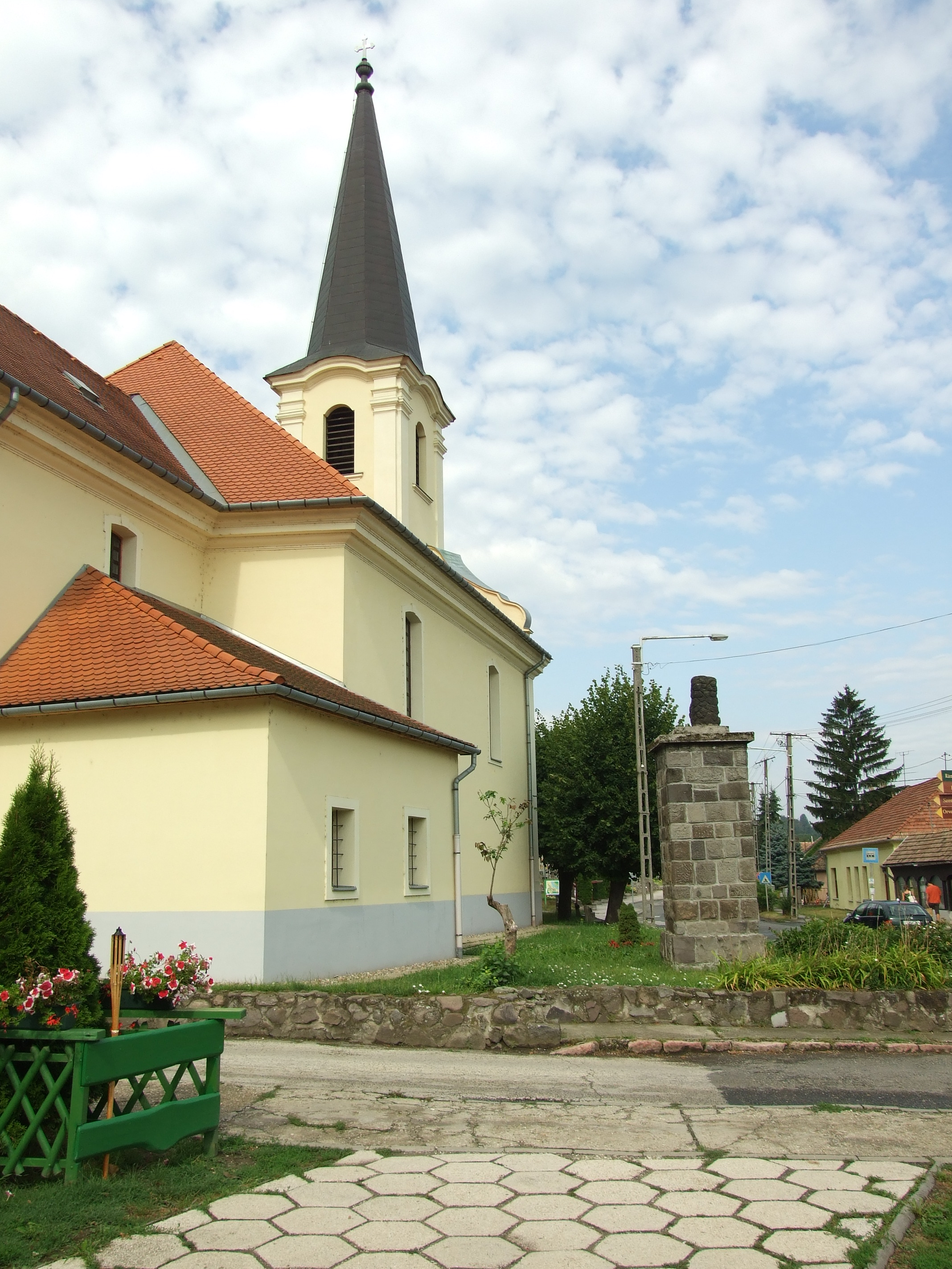 Town of Dömös, Komárom-Esztergom comitat, Hungaryhelp